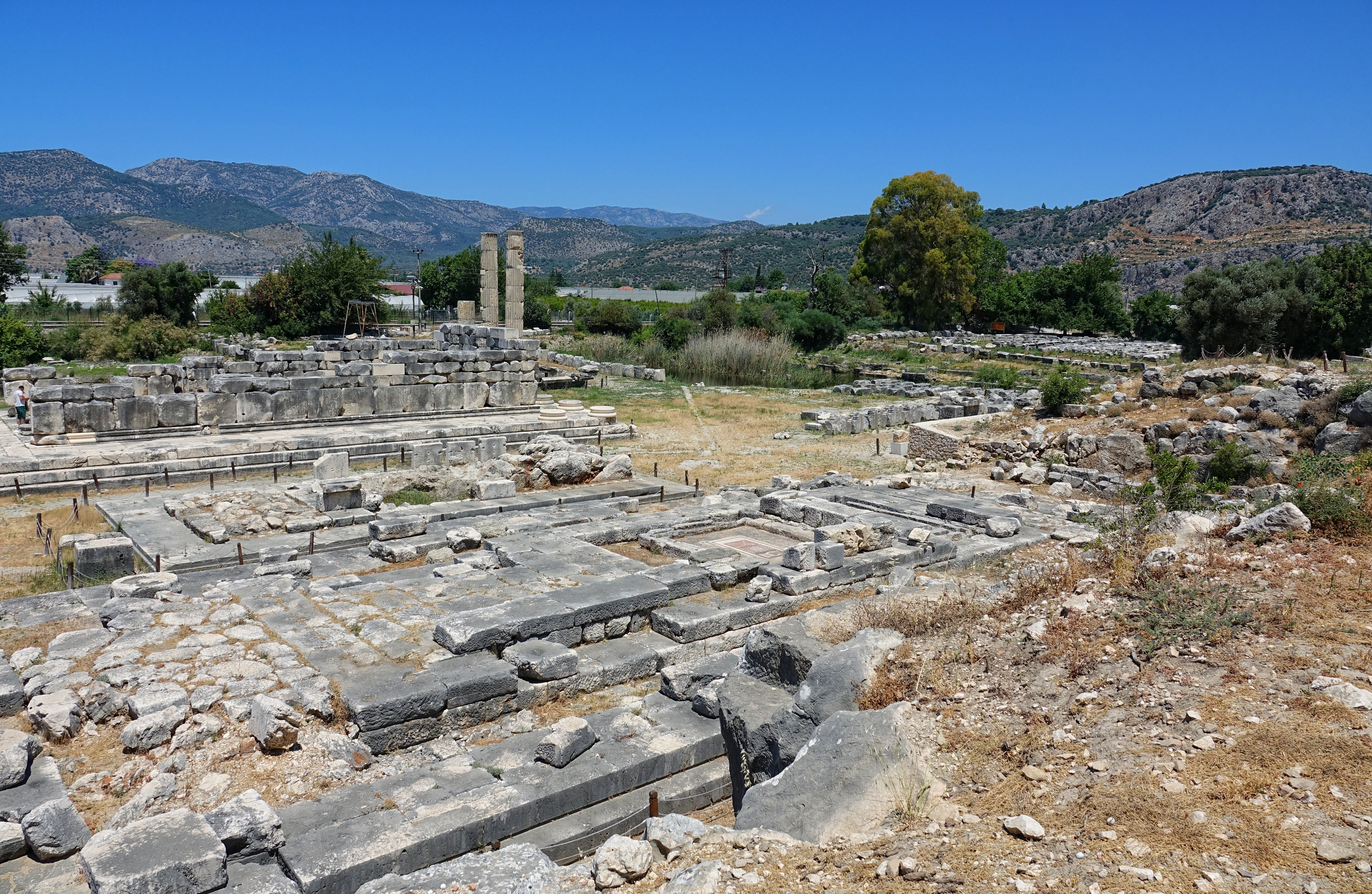 Surrounded by tomato farms, the ruins at Letoon span many centuries of buildings constructed by several different cultures.